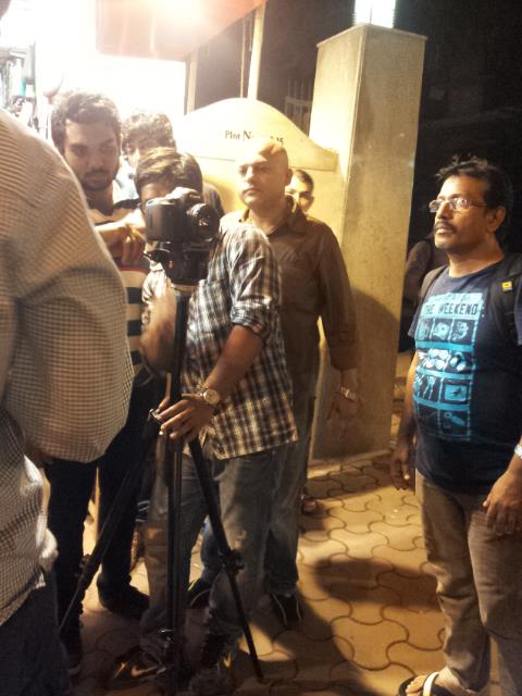 Deepak Bhanushali during shoot of The Attacks of 26/11 on ONCE MORE STUDIOS location